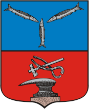 Kuznetsk (Penza oblast), coat of arms (1781)